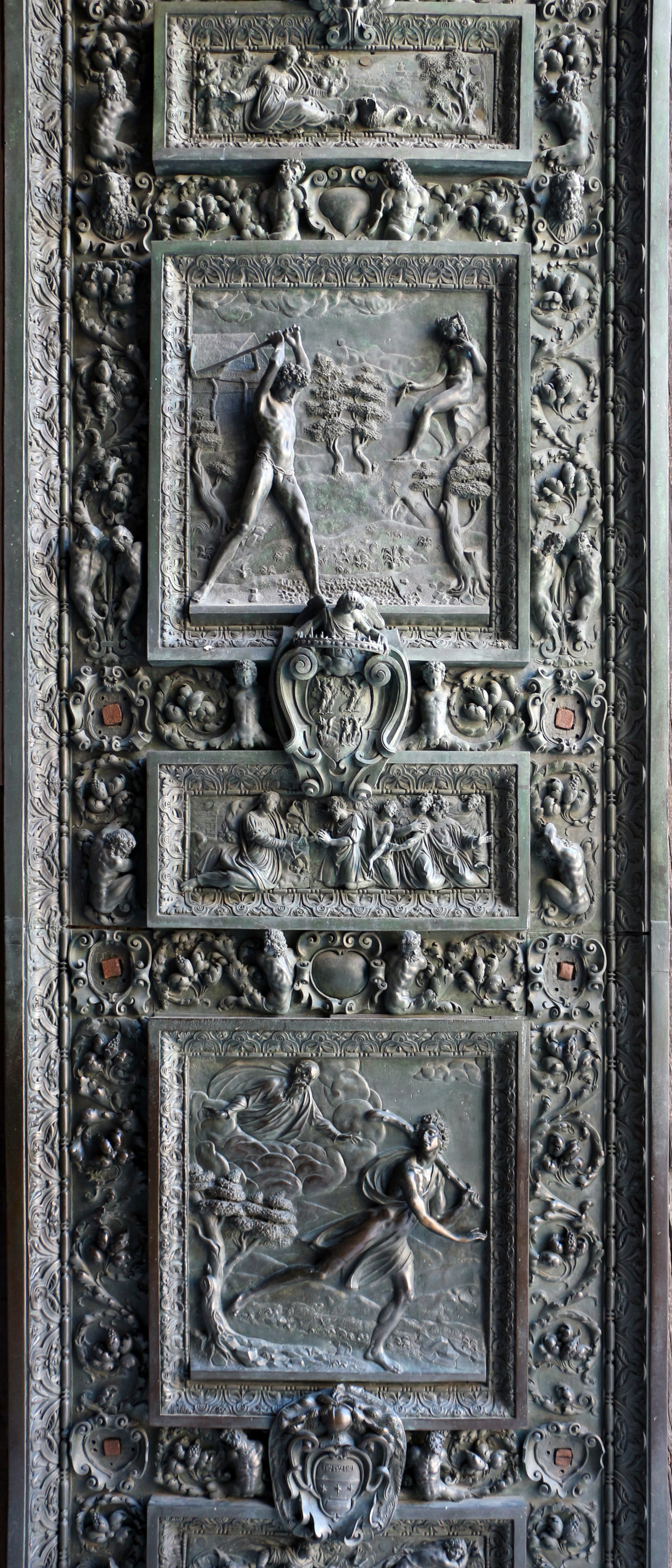 Santuario della Santa Casa (Loreto) - Bronze doors